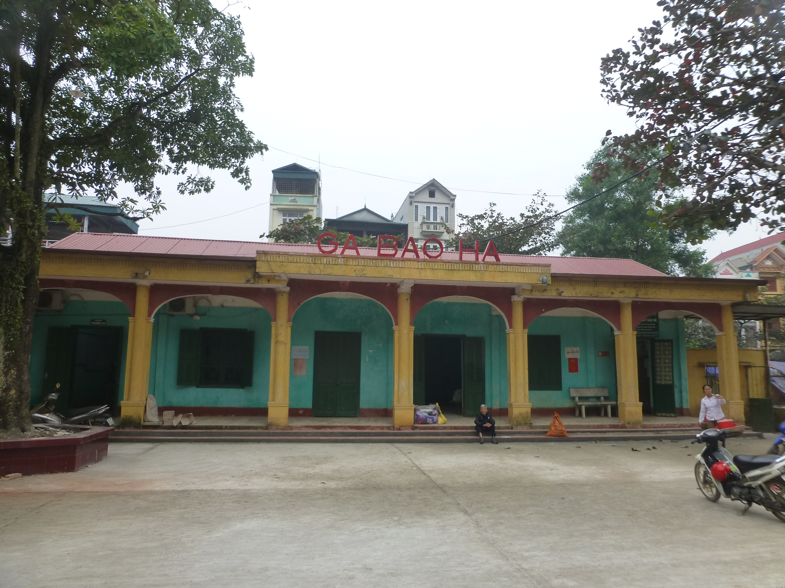 Bảo Hà Railway Station on the Hanoi-Lao Cai Railway, located in Bảo Hà Rural Commune (physically, a small town), Bảo Yên District, Lao Cai Province.